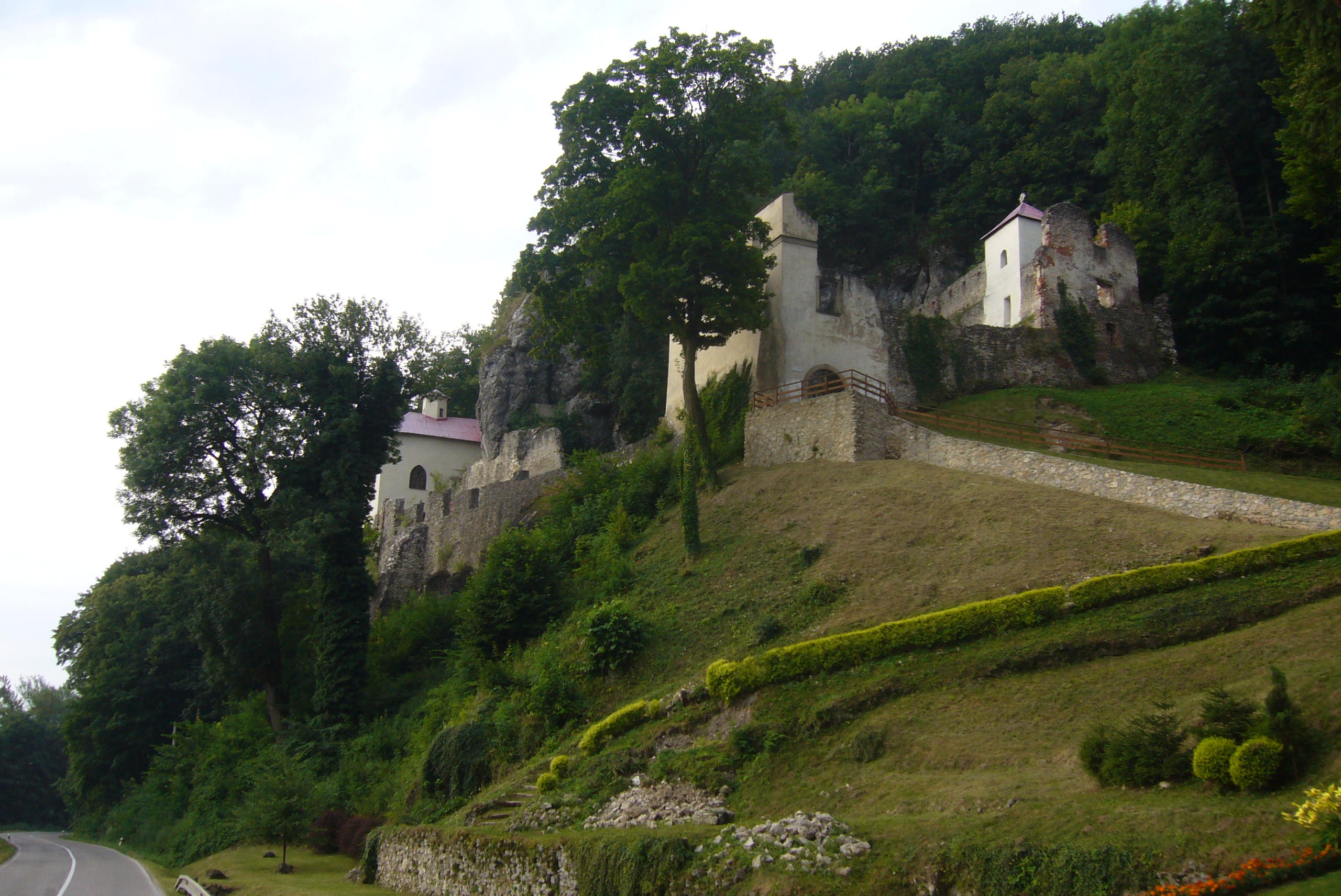 Ruin of abbey Velká Skalka, north-facing slope (Skalka u Trenčína, Slovakia)